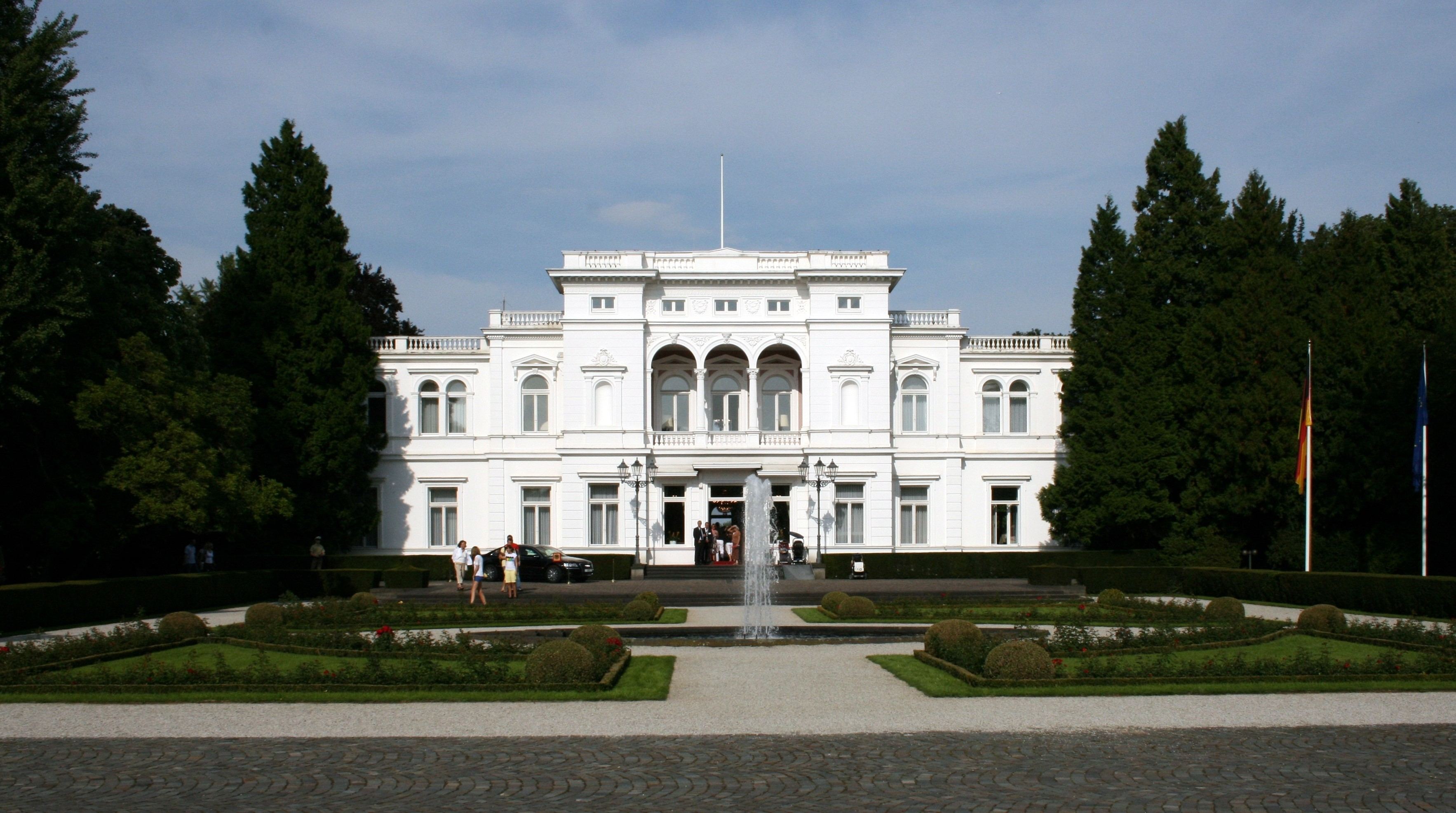 Villa Hammerschmidt, the second residence of the German President in Bonn, Germany. Front side; seen from Adenauerallee Street.